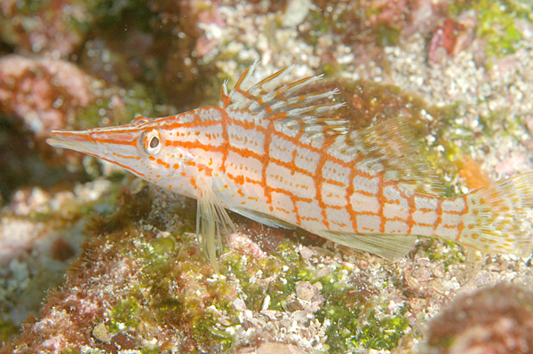 Long-nose Hawkfish, Galapagos Islands, Ecuador. Image taken by Clark Anderson/Aquaimages.